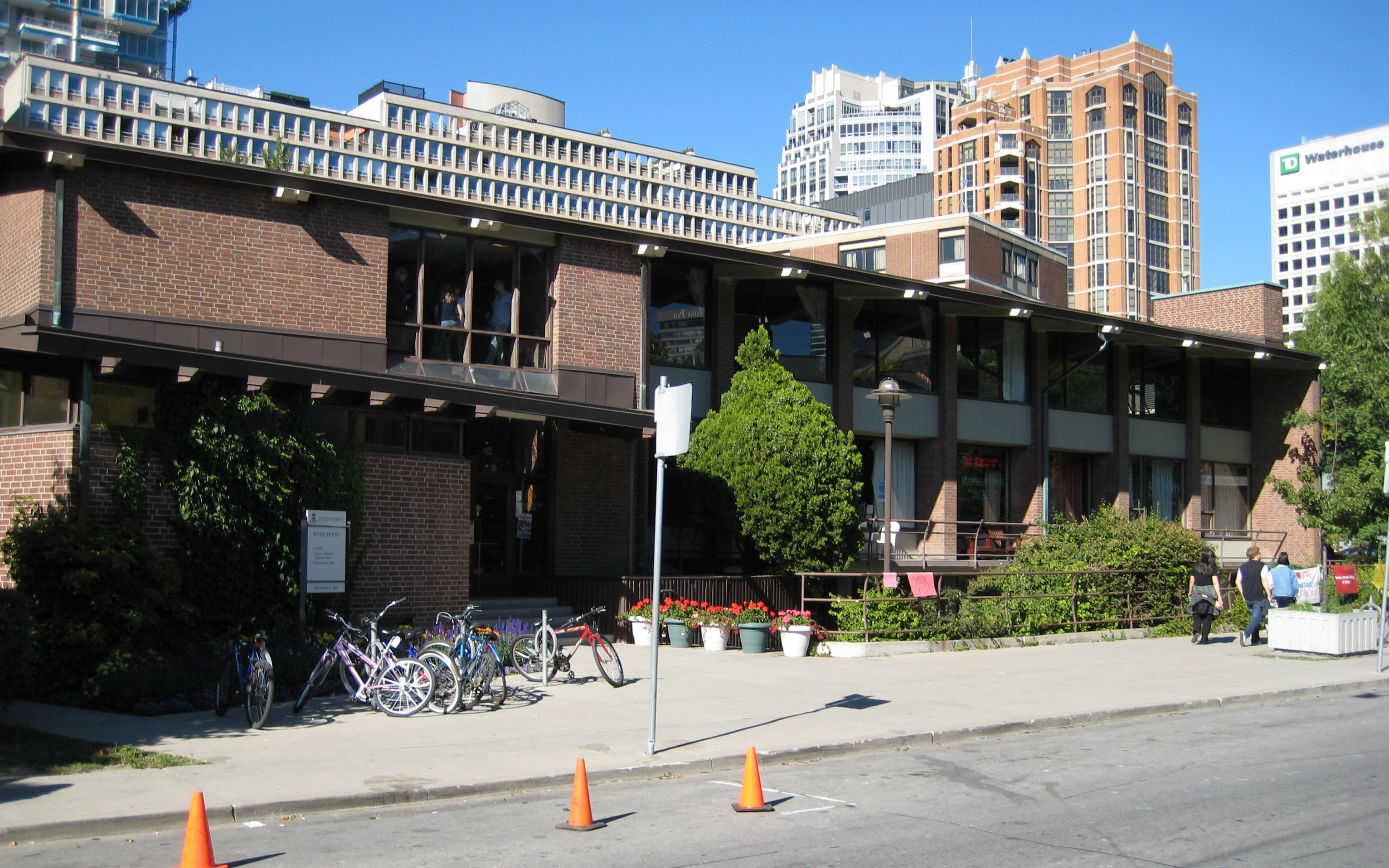 Wymilwood at the University of Toronto